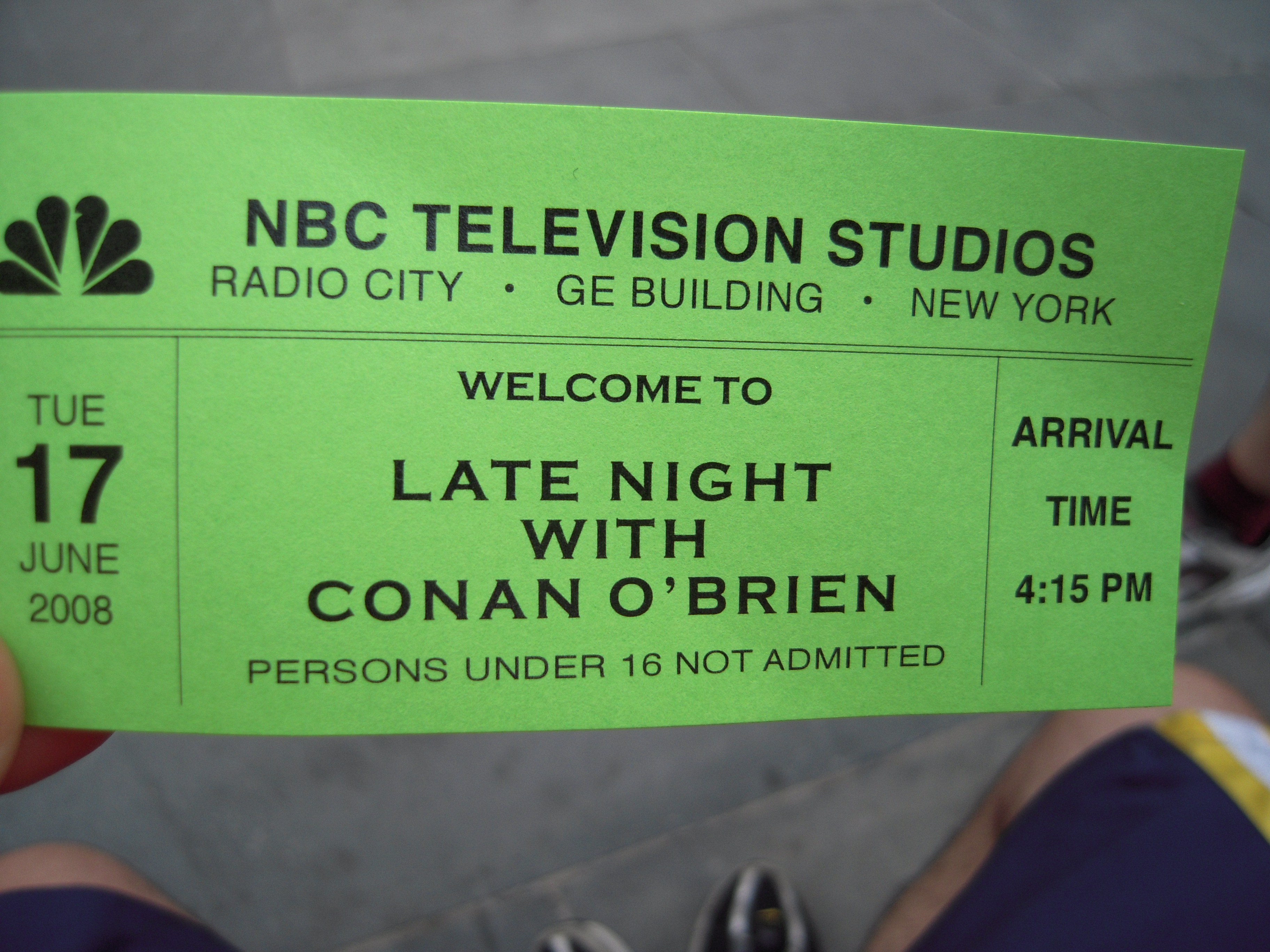 Image of a ticket used to gain admission to the show Late Night with Conan O'Brien.